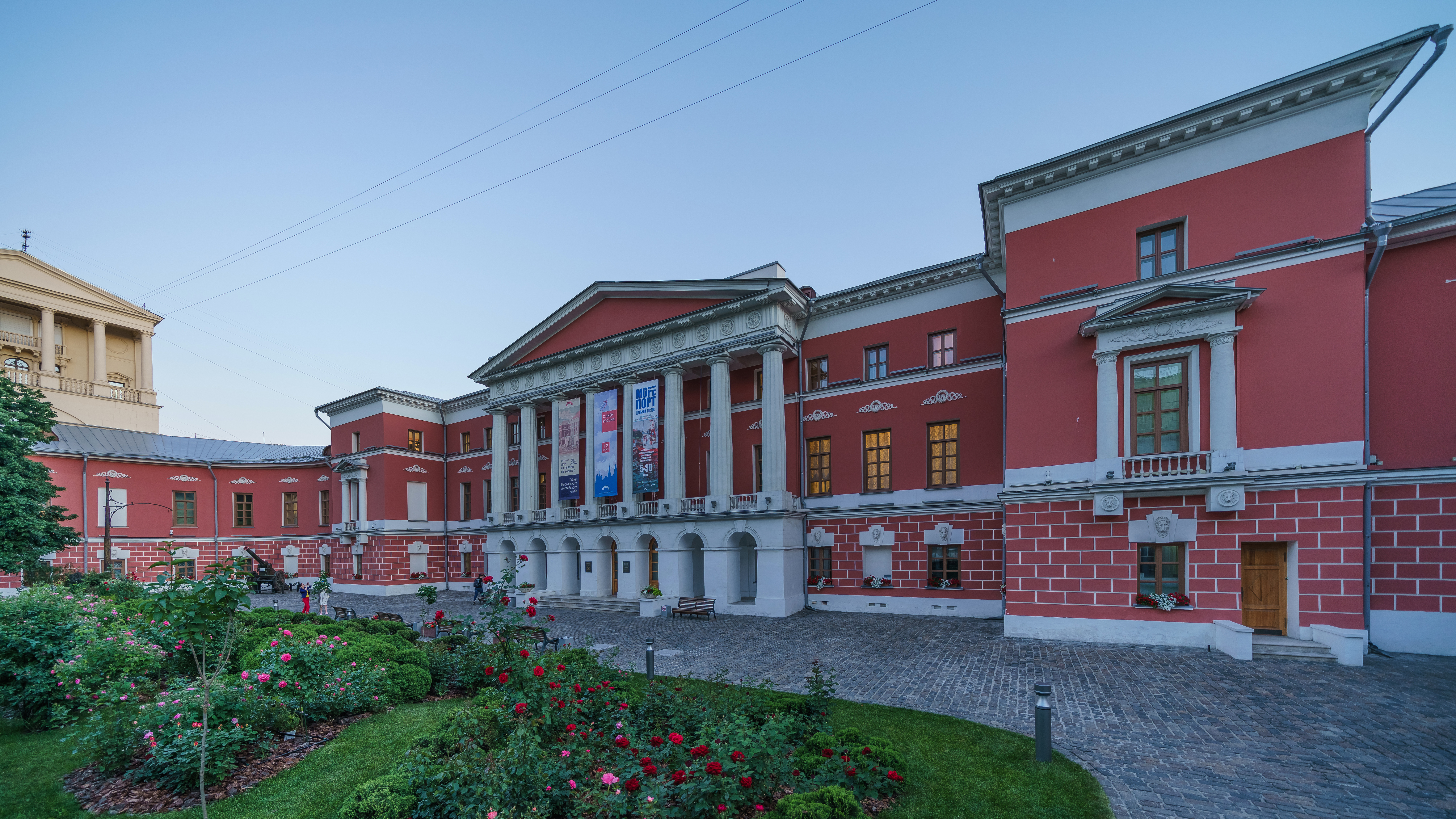 Former English Club building (Museum of Contemporary History of Russia) in Moscow, Russia